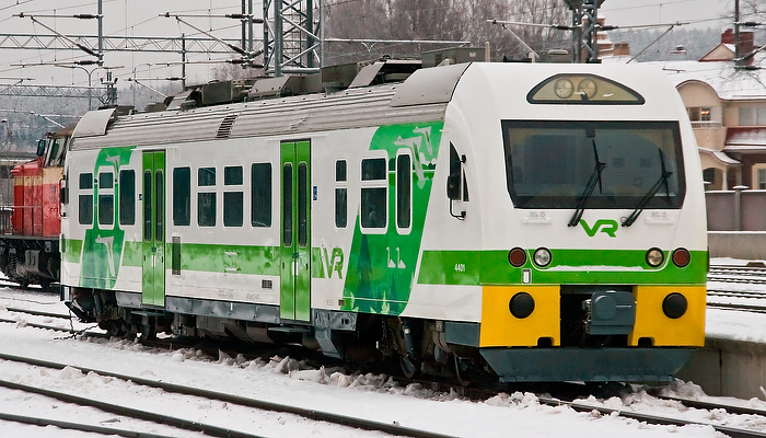 Renovated VR Dm12 4401 (ČKD Vagonka 56/2004) at Jyväskylä railway station in Jyväskylä, Finland.